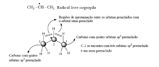 fdsffads